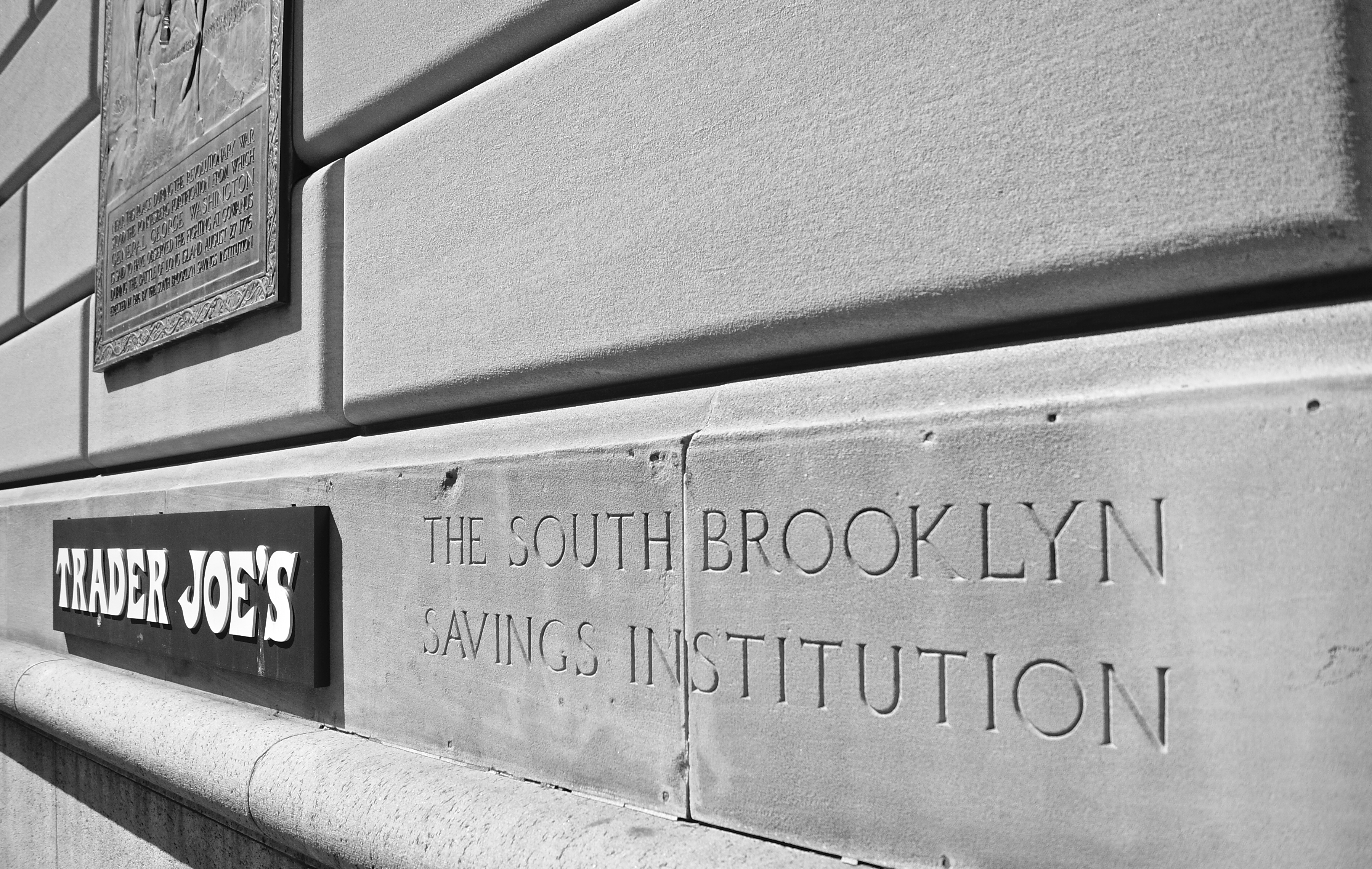 Trader Joes location in the Cobble Hill section of Brooklyn.